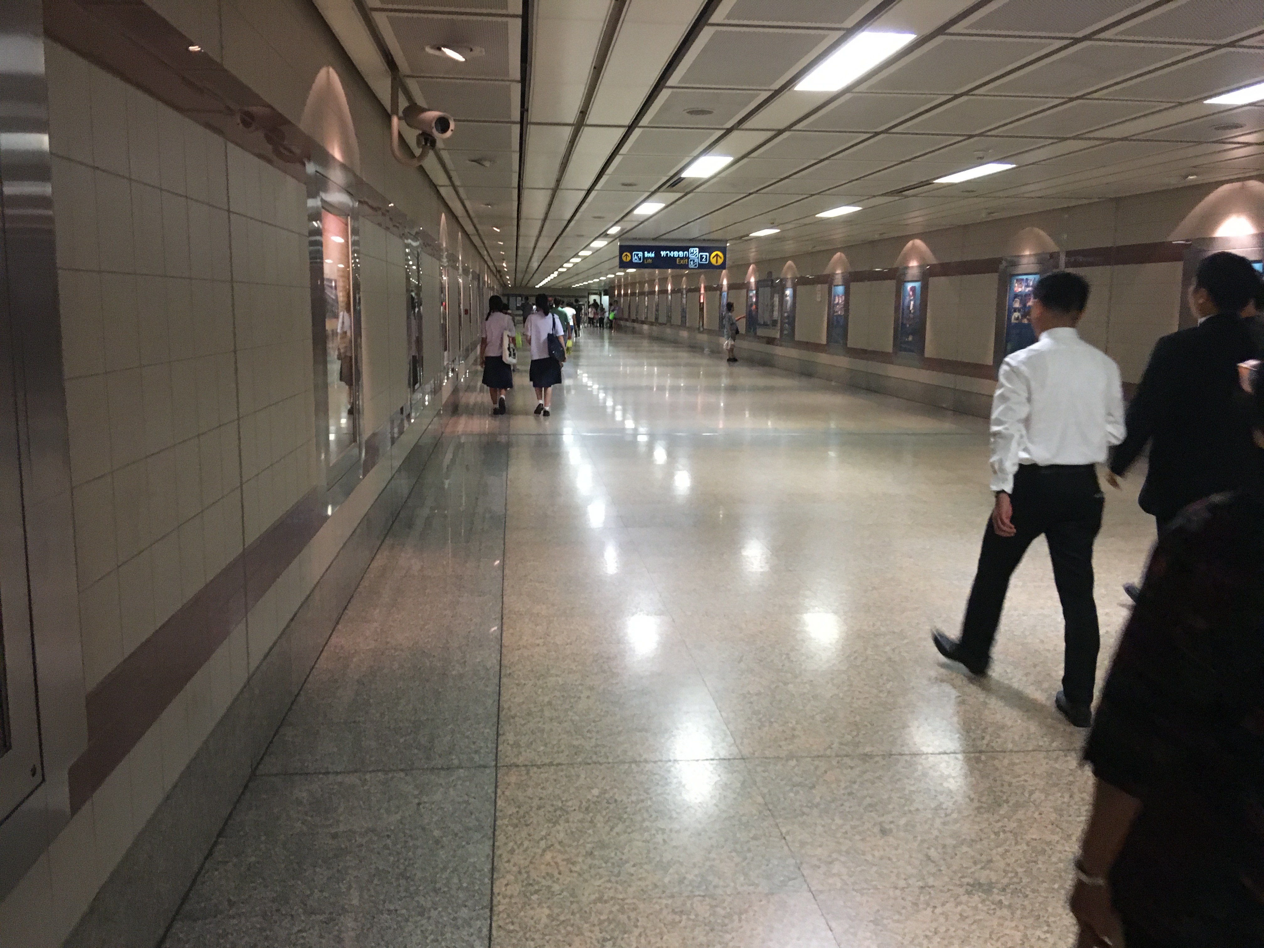 Walkway from Hua Lamphong MRT to Bangkok Railway Station 25 June 2016